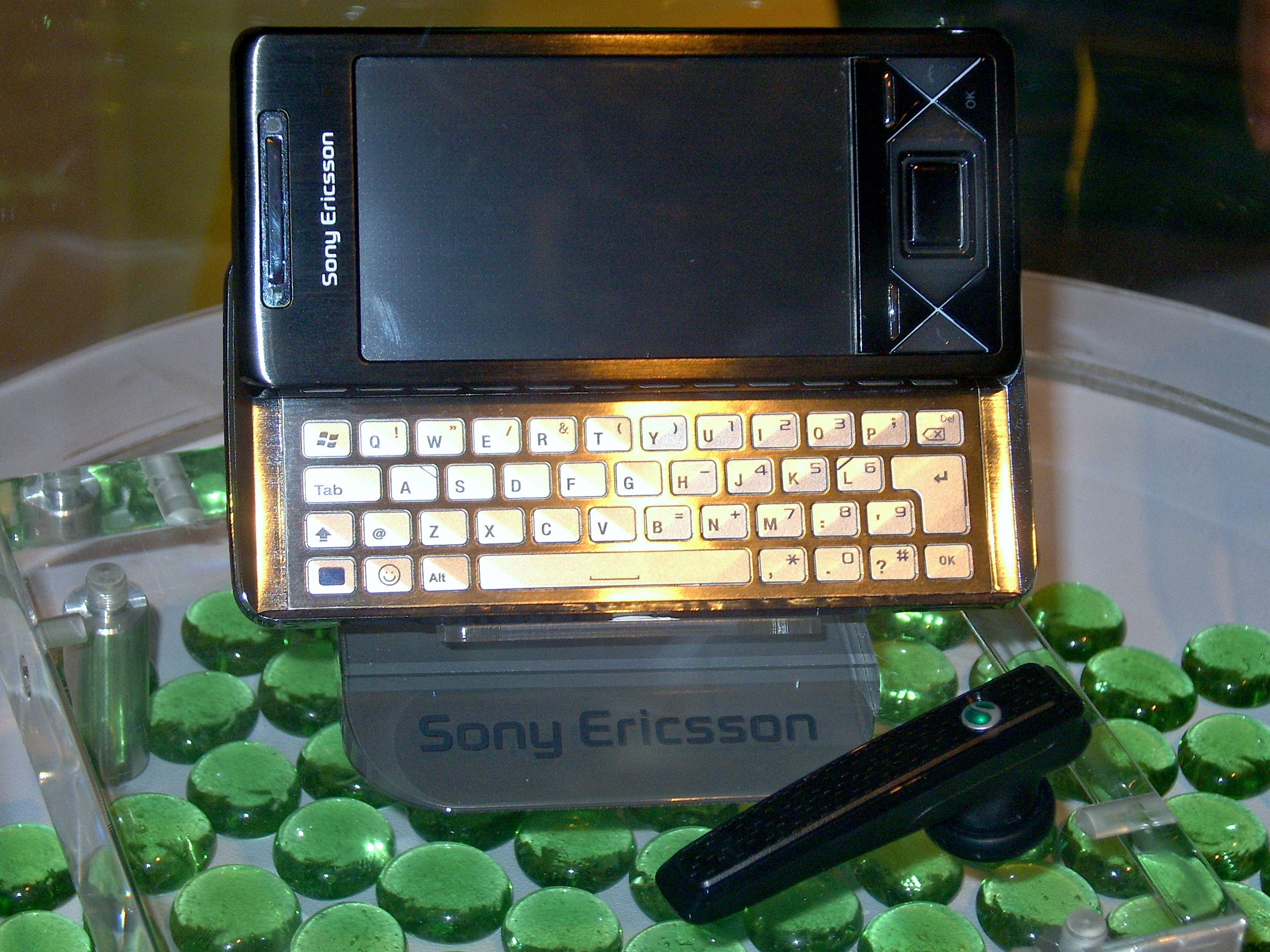 Sony Fair 2008: Sony Ericsson XPERIA X1 with Windows Mobile 6.1 Platform.